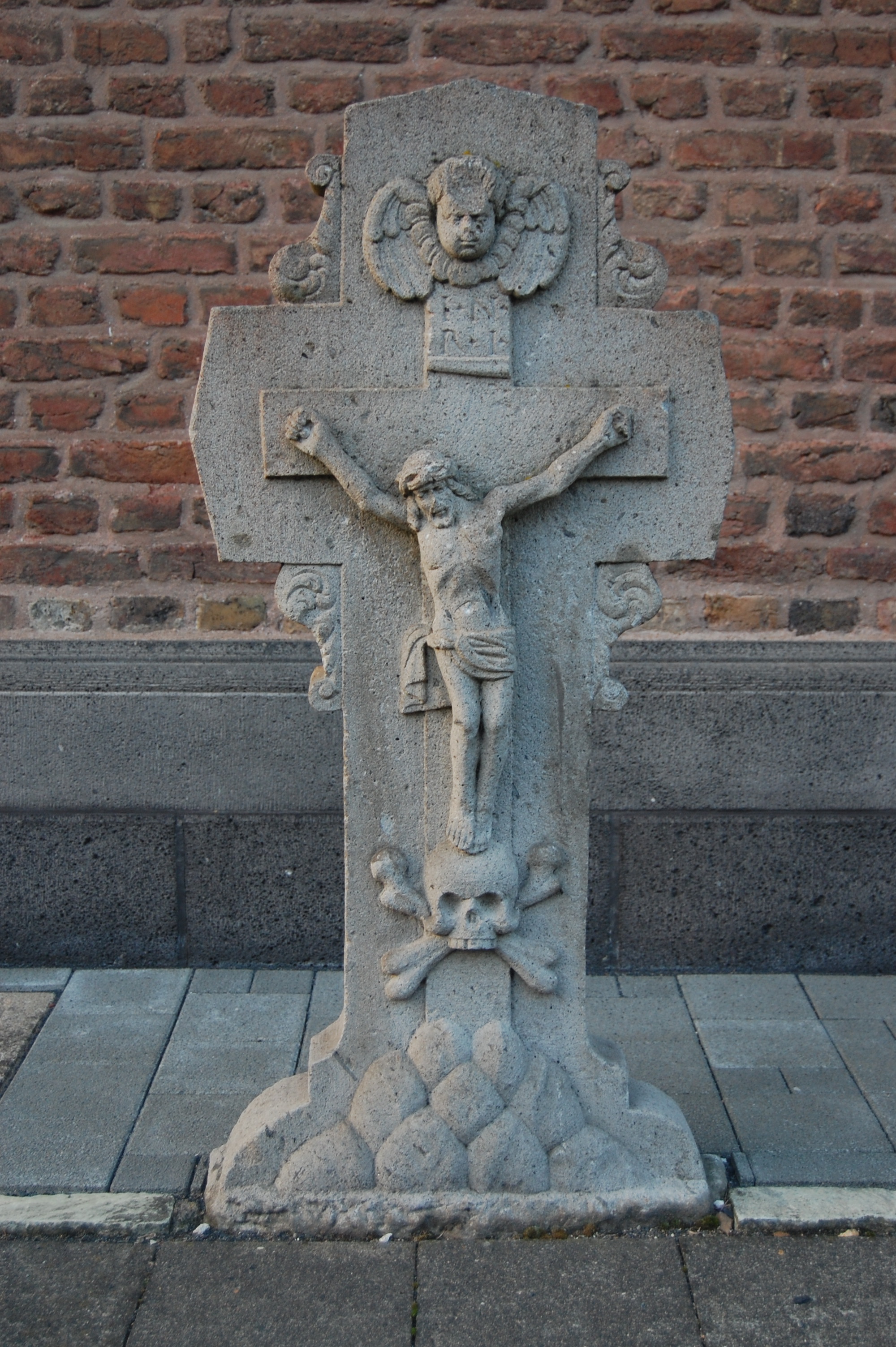 Gravestone at the old cemetary of the village Gymnich, Erftstadt, Germany